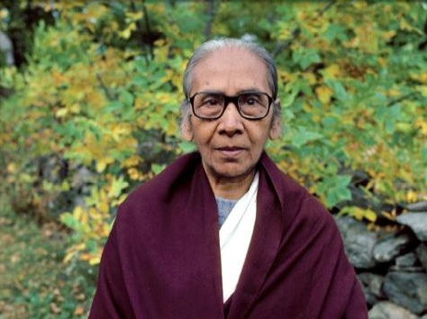 Copy of personal photo from IMS, Barre, Massachusetts 1978